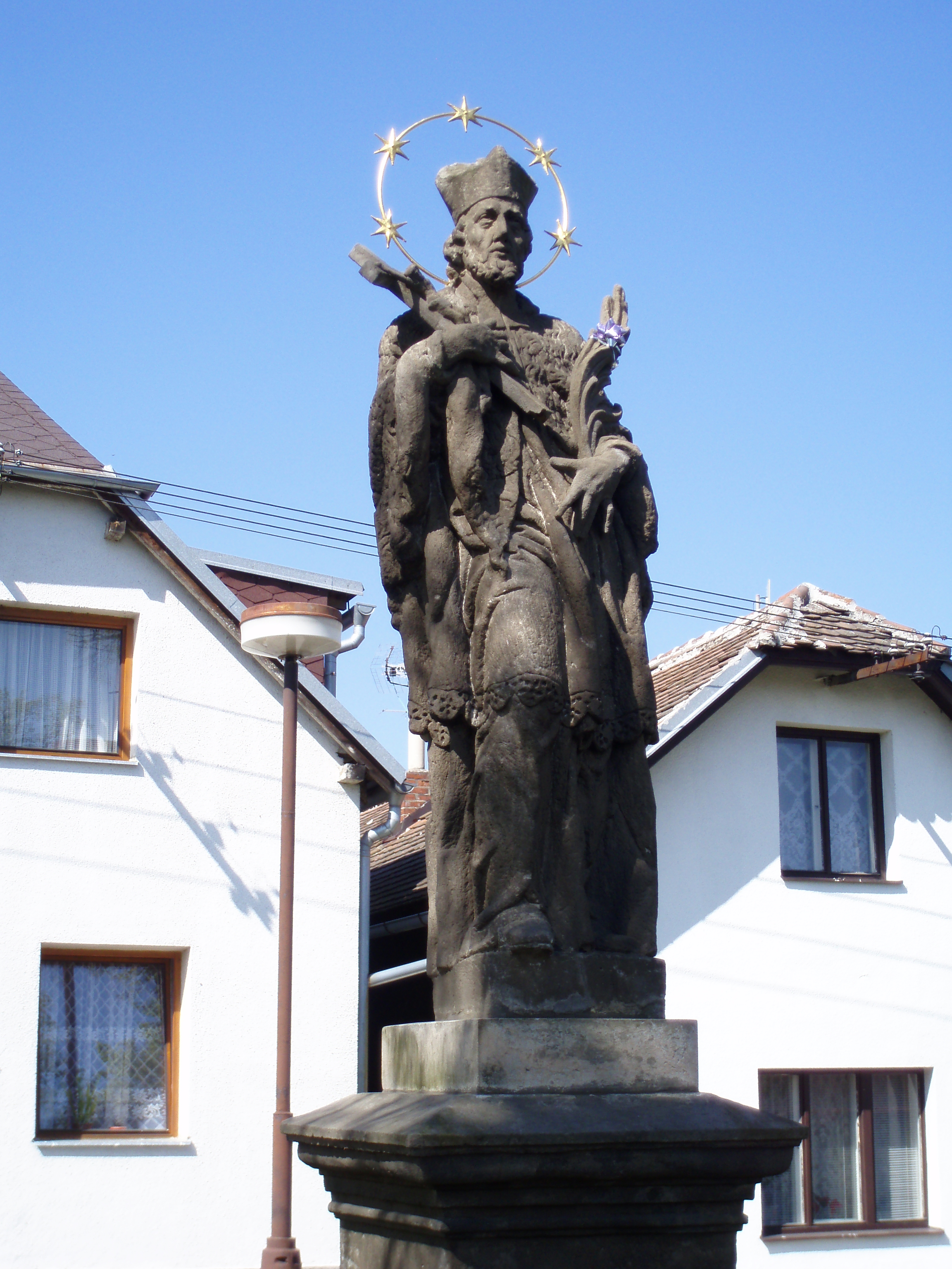 Statue of St. John of Nepomuk in Nový Hradec Králové (Hradec Králové)